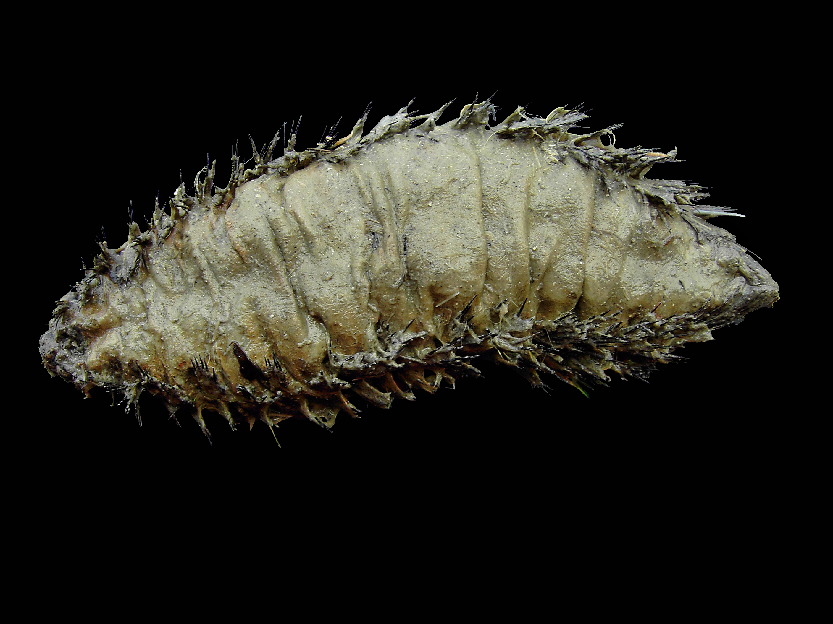 from the Belgian continental shelf.